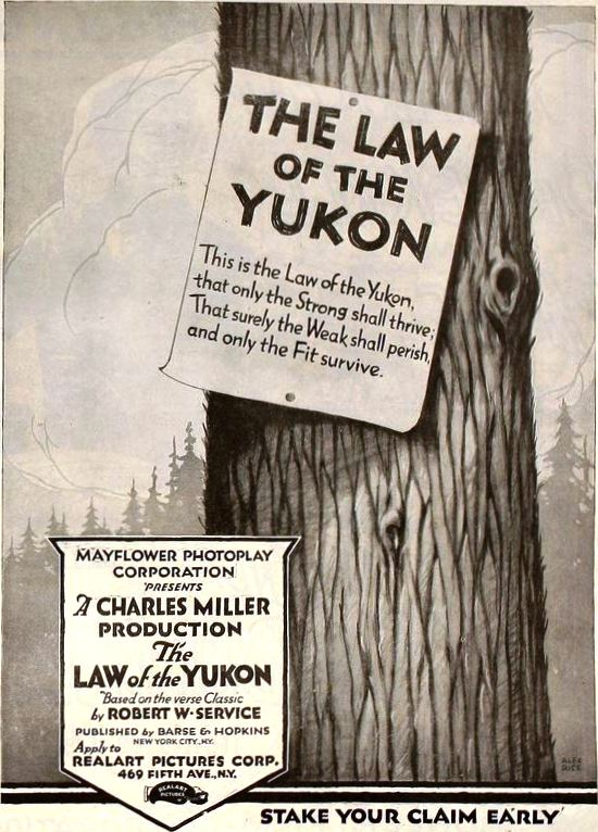 Ad for the American film The Law of the Yukon (1920), page 3585 of the April 24, 1920 Motion Picture News. The film was based upon a poem, one verse of which is shown in the ad.